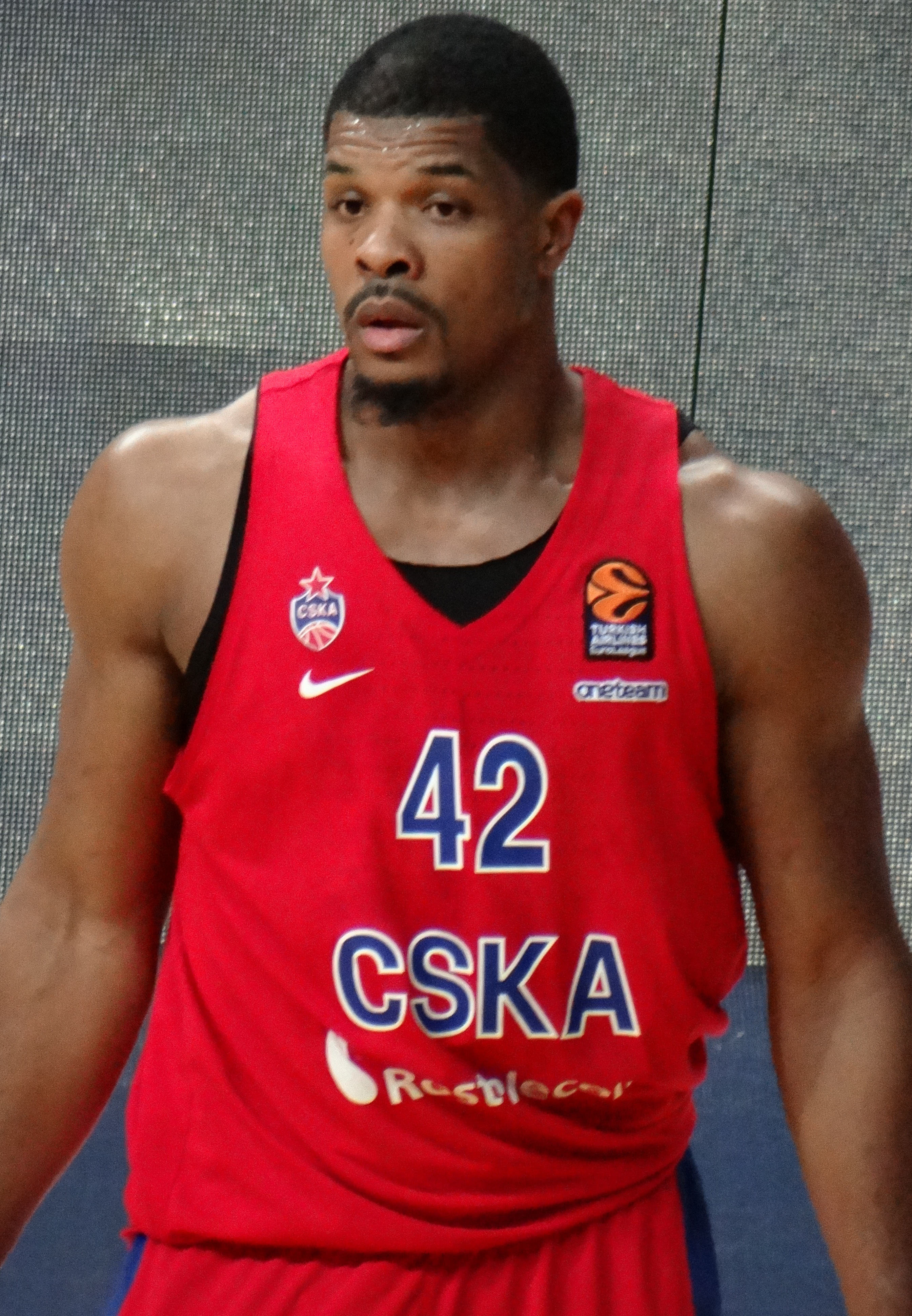 Kyle Hines 42 PBC CSKA Moscow EuroLeague 20180316